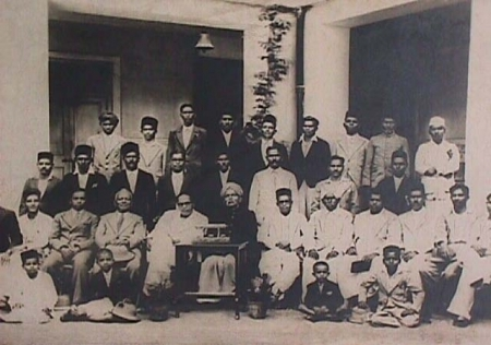 Dr. Babasaheb Ambedkar